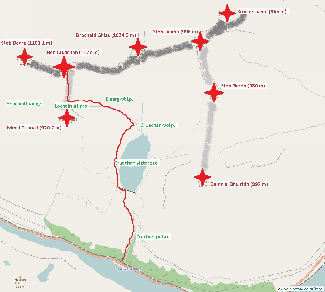 Trails leading to the summit of Ben Cruachan and the Cruachan horseshoe.